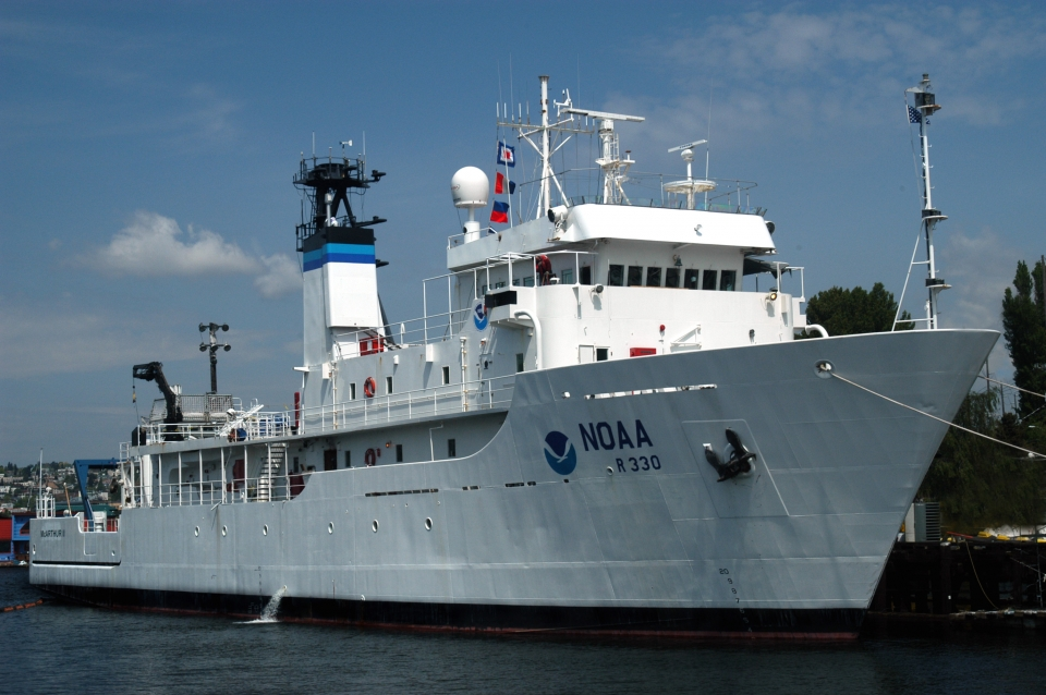 NOAA Ship McArthur II